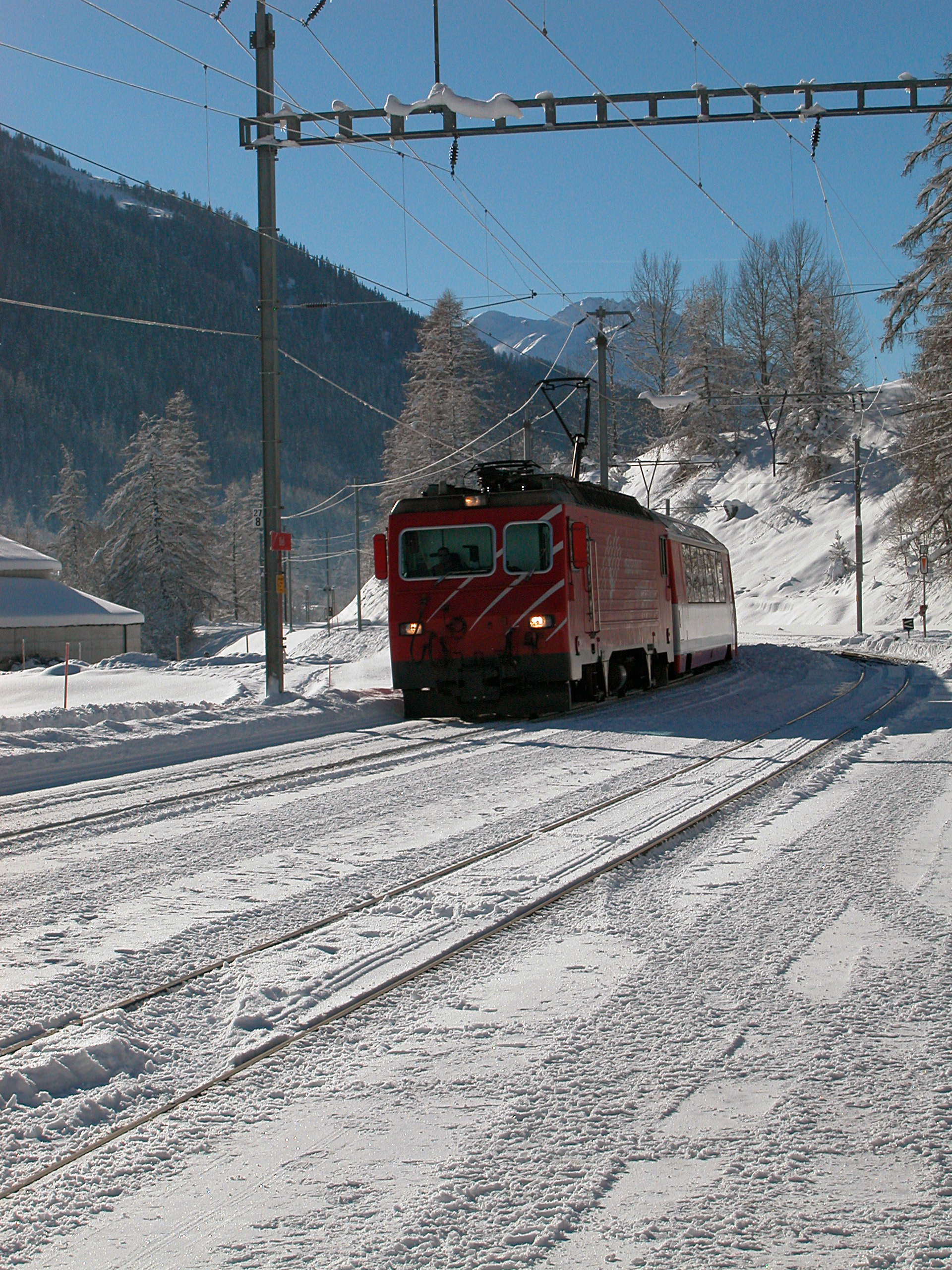 Switzerland, Goms, Grafschaft (Biel), Arrival of the Glacier-Express , Switzerland, Aarau, 2004